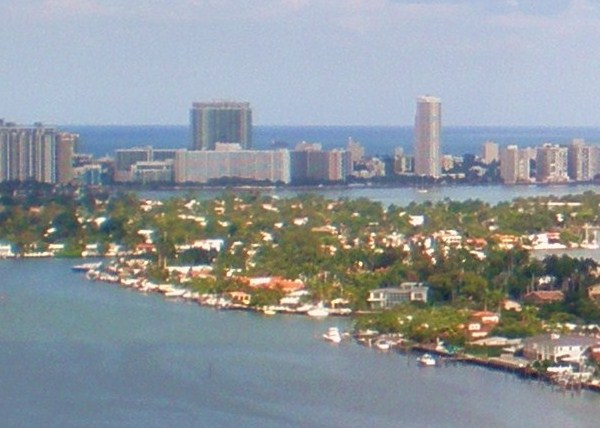 Digital photo taken by Marc Averette. San Marino Island in the City of Miami Beach, Florida, United States.